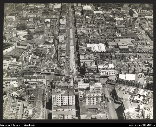 William Street branching out to Kings Cross, Victoria Street, etc., Sydney.